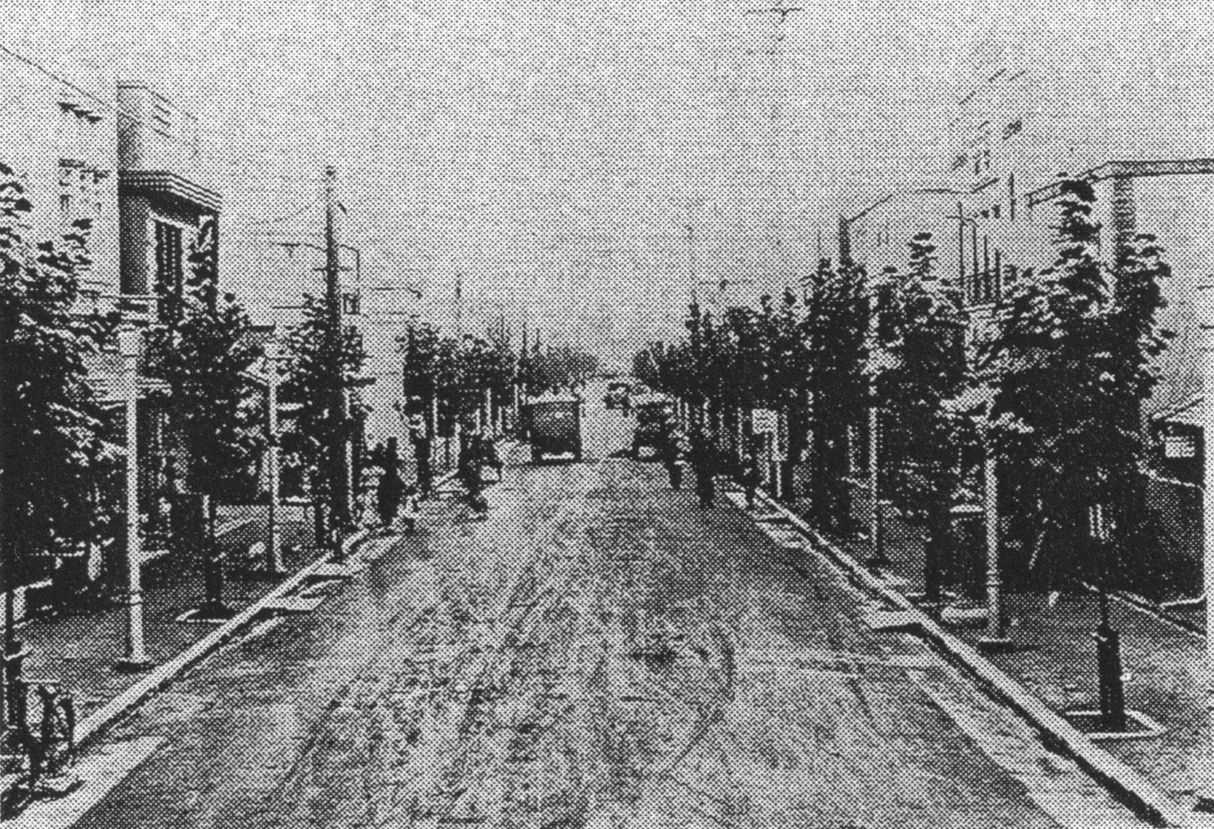 This is a landscape of Ishioka, Ibaraki, Japan in 1935.